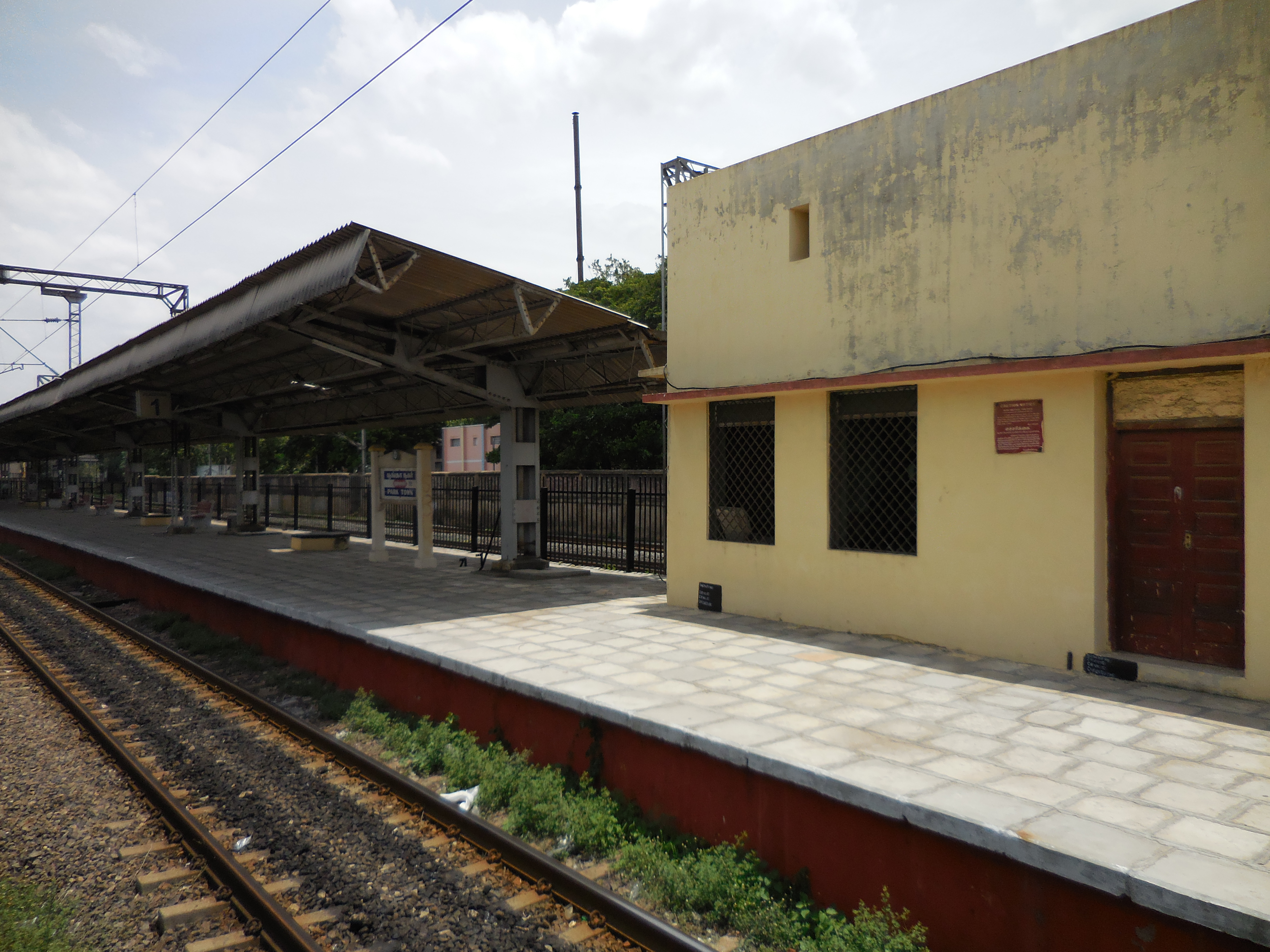 View of Chennai Park Town MRTS railway station outer building, taken on 15 July 2014, afternoon.